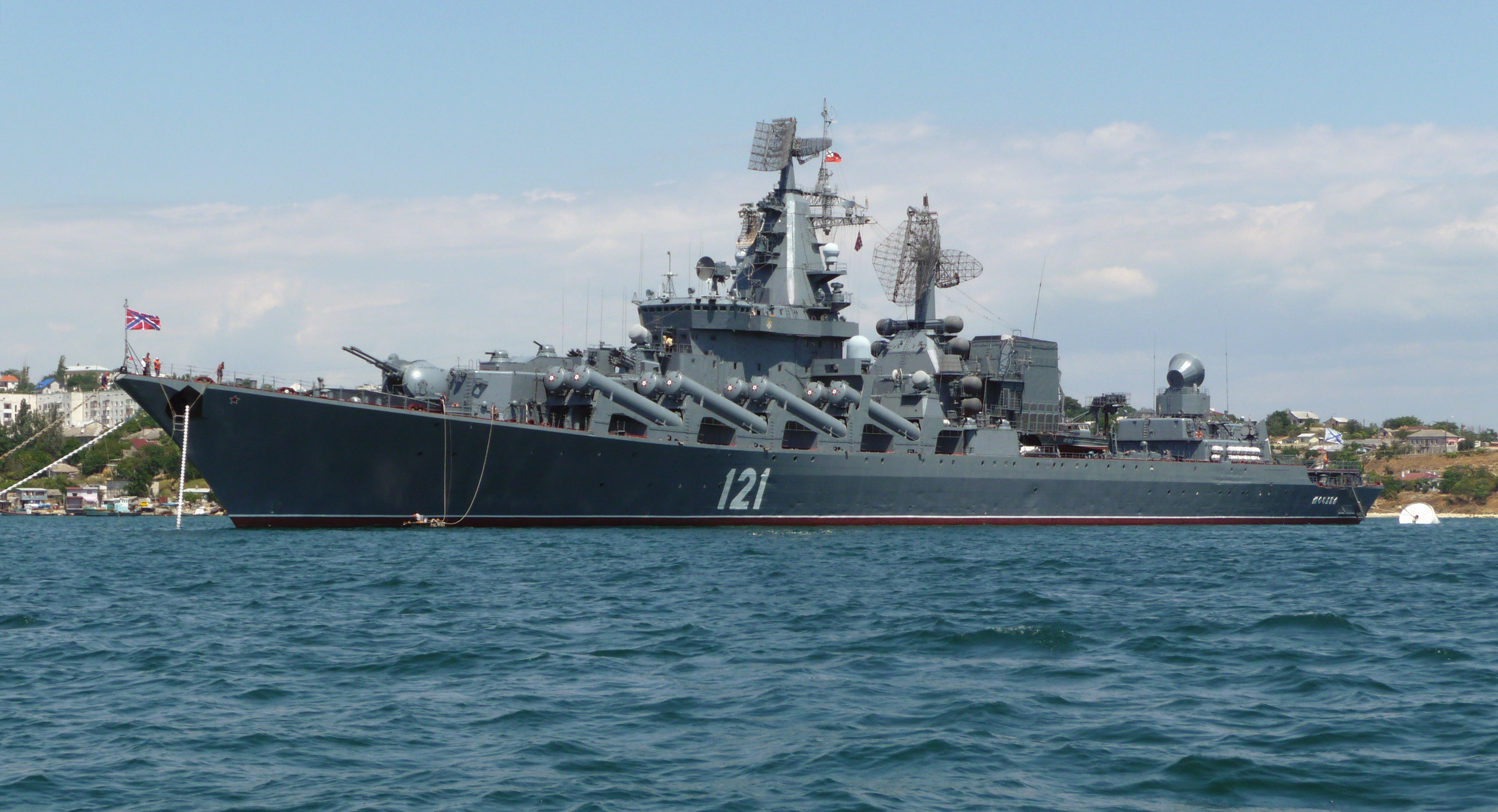 "Moskva" ("Moscow") (ex-"Slava", which means "Glory") is the lead ship of the Project 1164 Atlant class of guided missile cruisers in the Russian Navy. The Project 1164 Atlant class was developed as "Aircraft carriers killer". This warship was used in the 2008 Russia-Georgia War. The Black Sea. Sevastopol bay. This photo was taken from a boat.